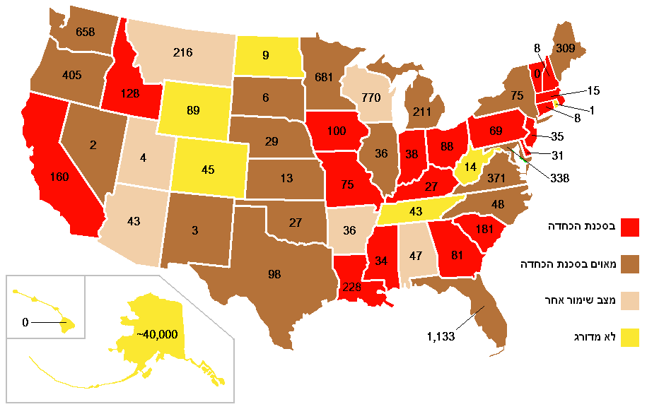 Map of USA-claimed territory with numbers of the pairs of bald eagles between 1999 and 2005 (each state has a different time of survey) and with the status of the conservation in this state. The information based on the FWS site.